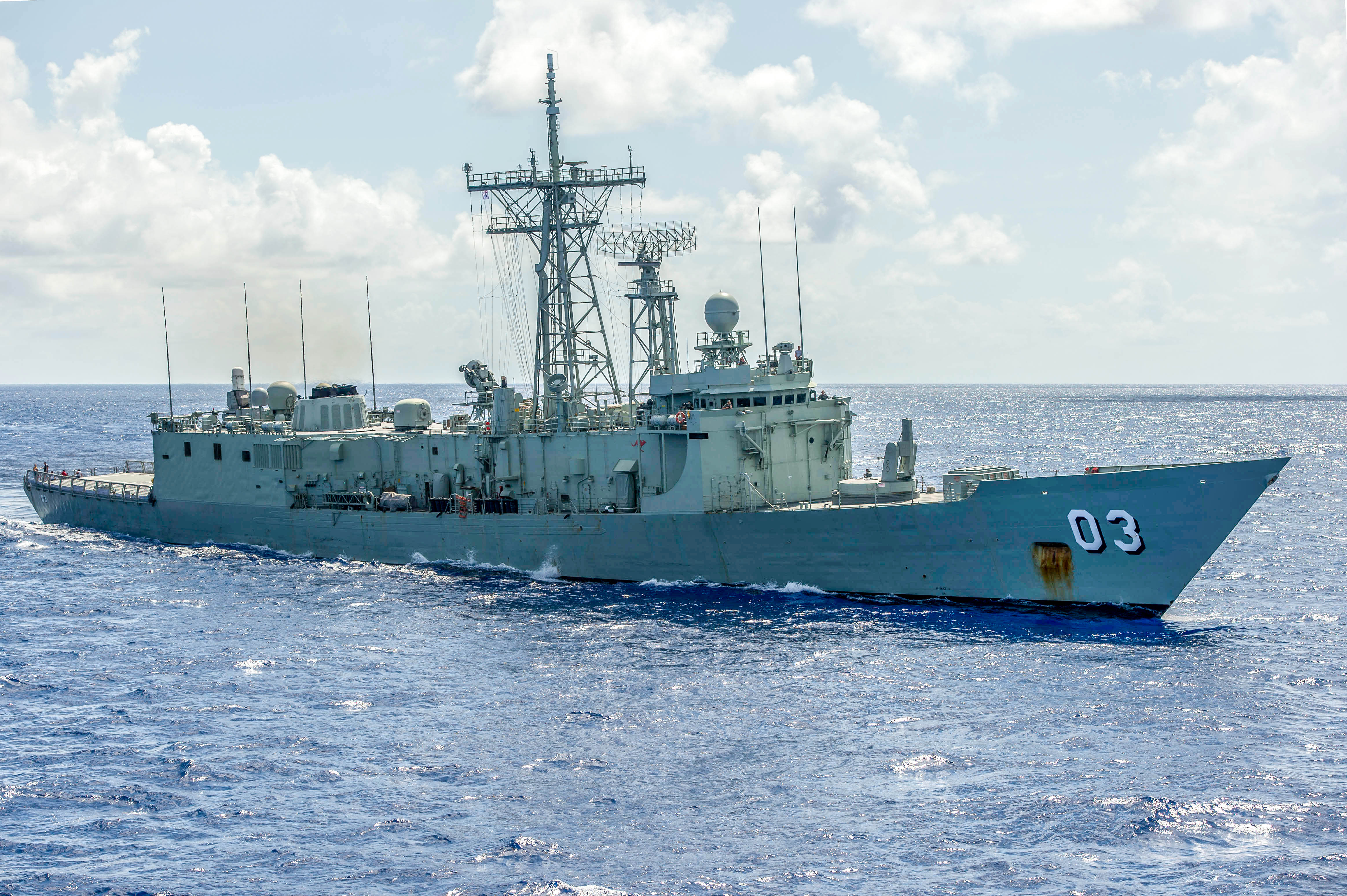 The Royal Australian Navy frigate HMAS Sydney (FFG 03) is underway during Pacific Bond 2013. Pacific Bond is a U.S. Navy, Royal Australian Navy, and Japan Maritime Self-Defense Force maritime exercise designed to improve interoperability and further relations between nations.